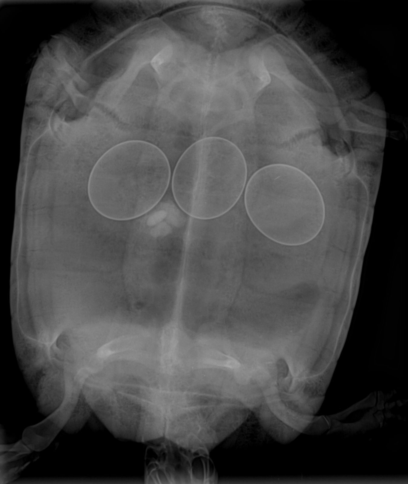 x-ray of a turtle with dystochia (egg binding)